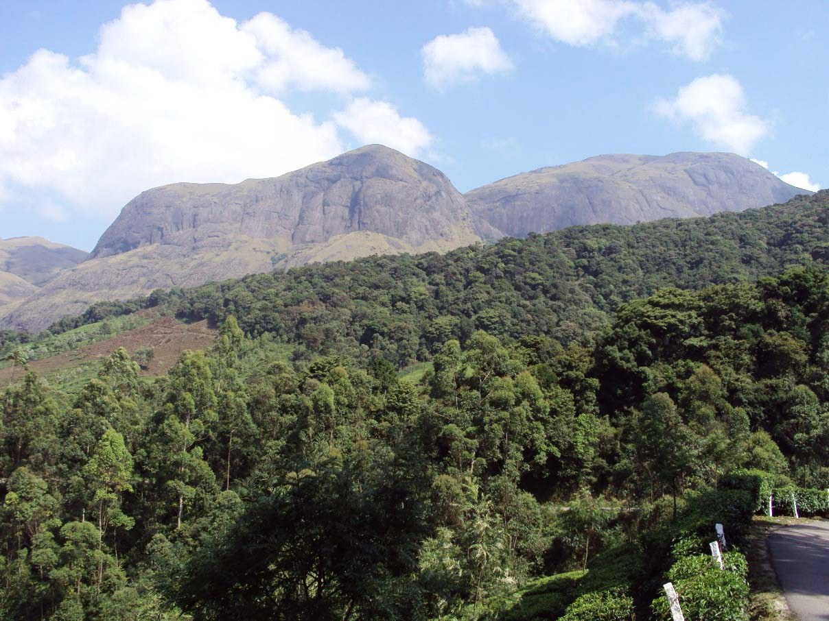 Anamudi, on the right, as seen from the Munnar-Udumalpettai highway.